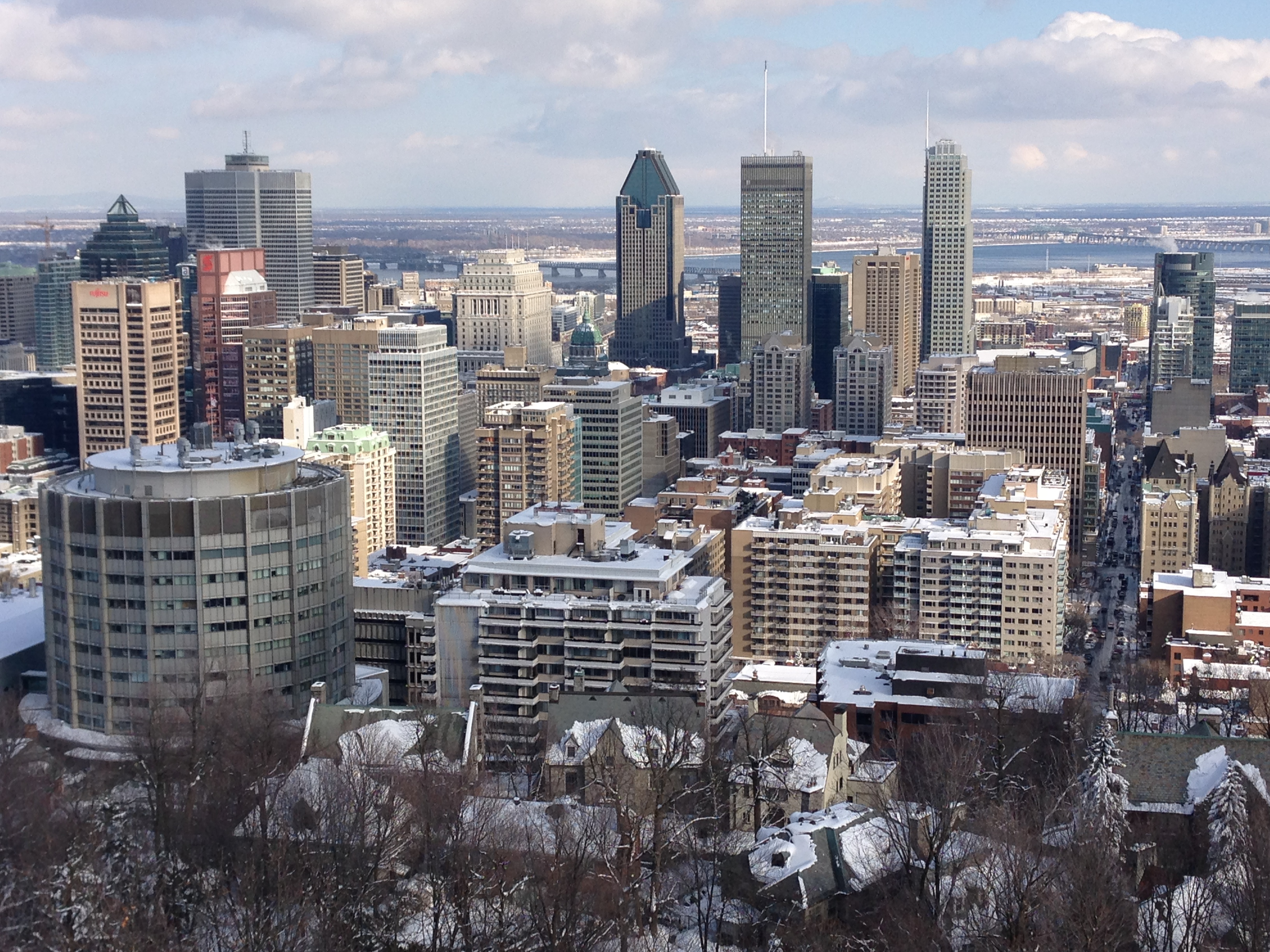 A view of Downtown Montreal